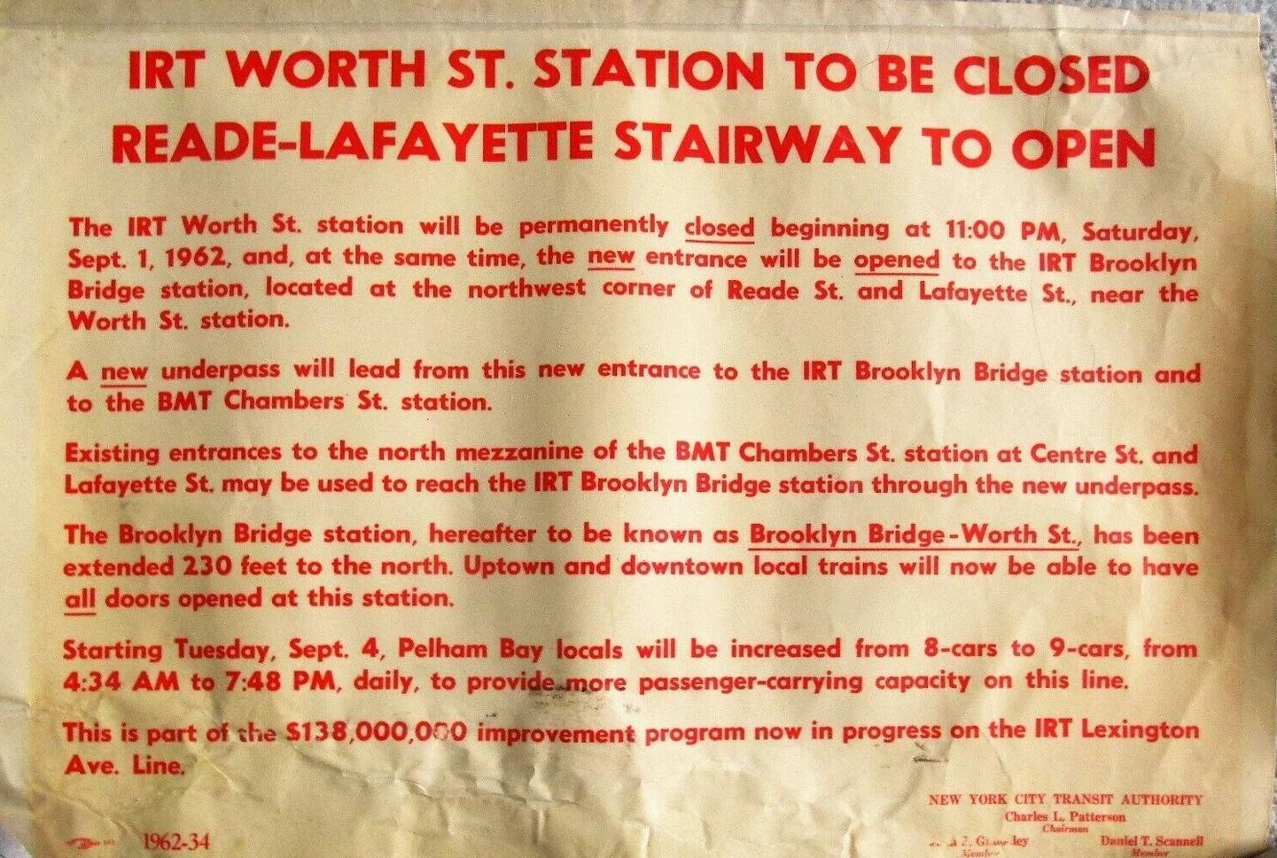 This New York City Transit Authority poster from 1962 was created to inform riders of the impending closure of the Worth Street station on September 1, 1962 with the opening of platform extensions at Brooklyn Bridge station.